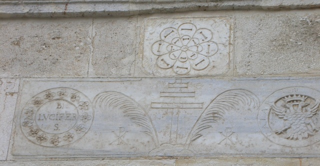 Church of San Lucifero (circa 1660), dedicated to Saint Lucifer. Detail of church facade. Cagliari, Sardinia, Italy